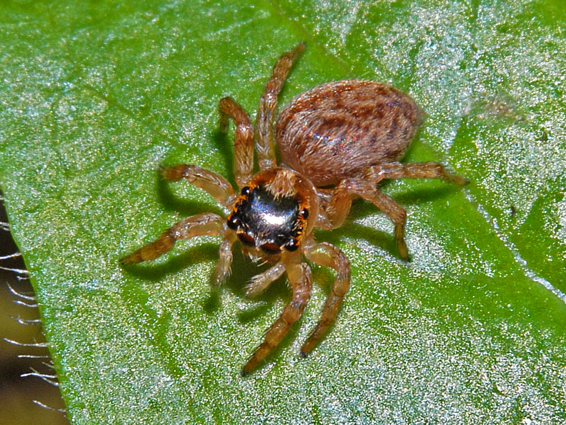 Saitis barbipes, female. Piani di Praglia, Genova, Italy